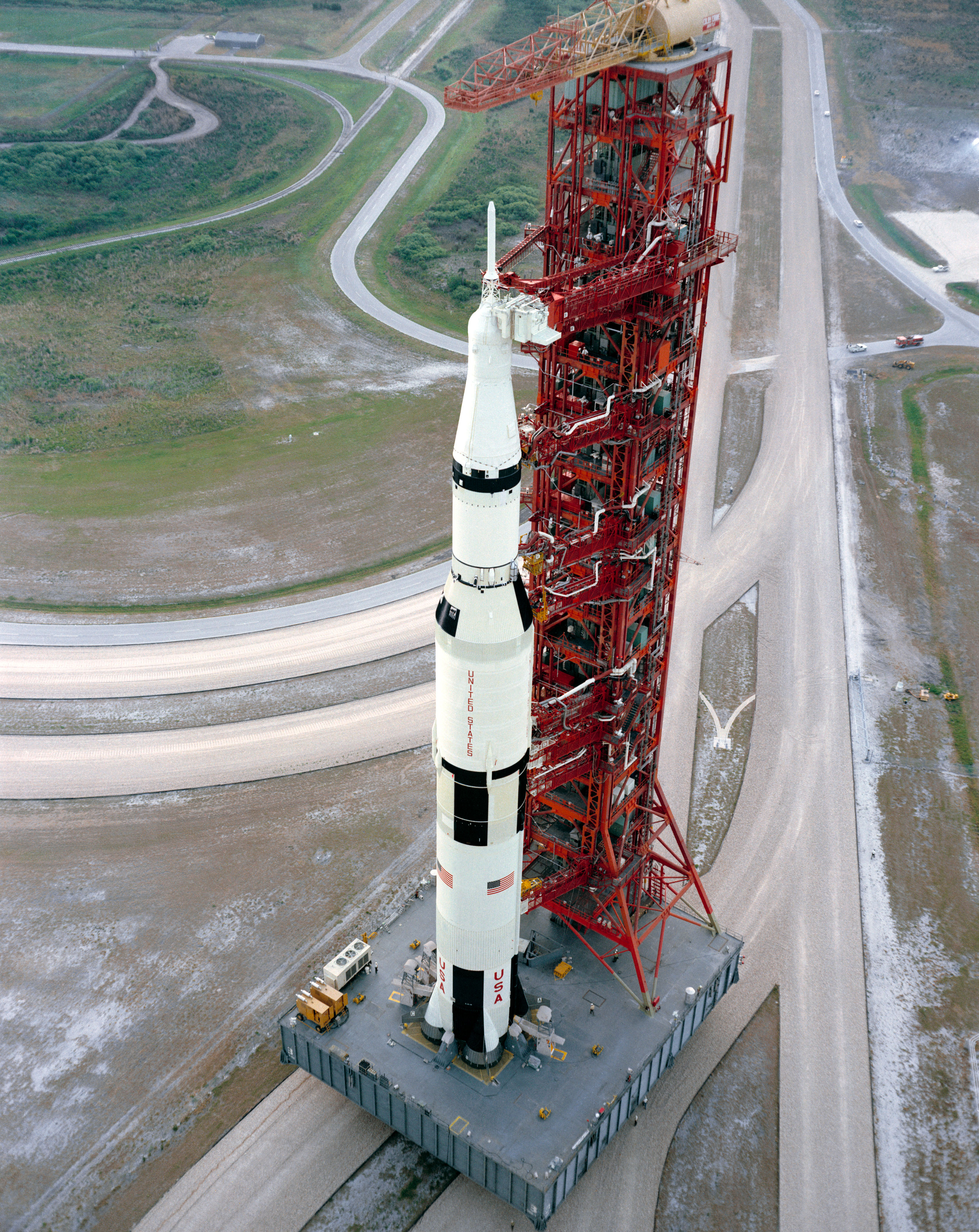 S71-33781 (11 May 1971) --- High angle view showing the Apollo 15 (Spacecraft 112/Lunar Module 10/Saturn 510) space vehicle on the way from the Vehicle Assembly Building (VAB) to Pad A, Launch Complex 39, Kennedy Space Center (KSC). The Saturn V stack and its mobile launch tower are atop a huge crawler-transporter. Apollo 15 is scheduled as the fourth manned lunar landing mission by the National Aeronautics and Space Administration (NASA). The crew men will be astronauts David R. Scott, commander; Alfred M. Worden, command module pilot; and James B. Irwin, lunar module pilot. While astronauts Scott and Irwin descend in the Lunar Module (LM) to explore the moon, astronaut Worden will remain with the Command and Service Modules (CSM) in lunar orbit.